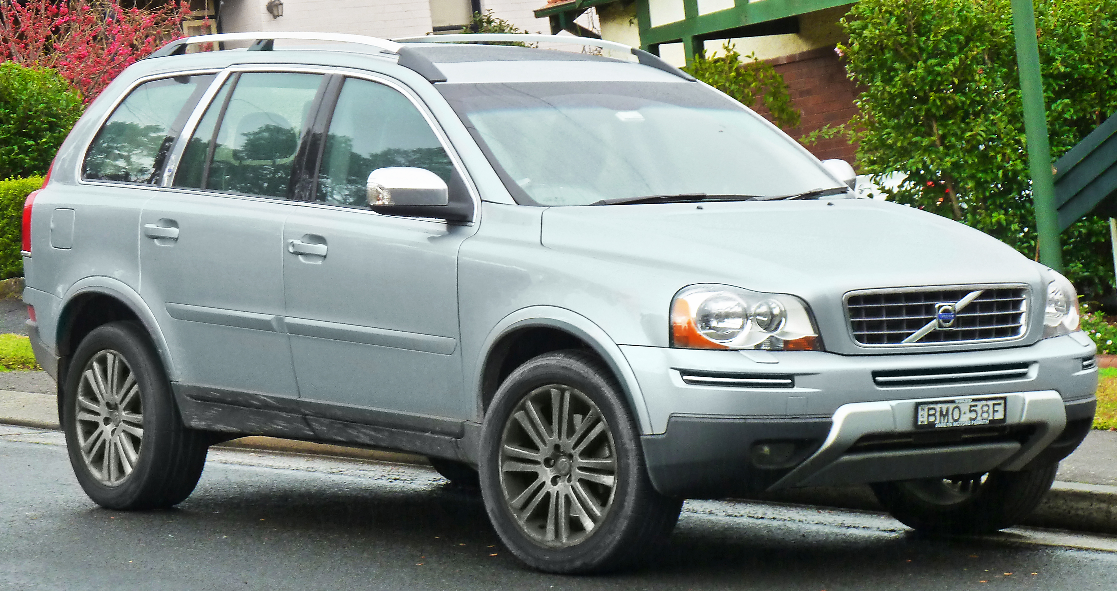 2009 Volvo XC90 (P28 MY09) D5 wagon. Photographed in Roseville, New South Wales, Australia.